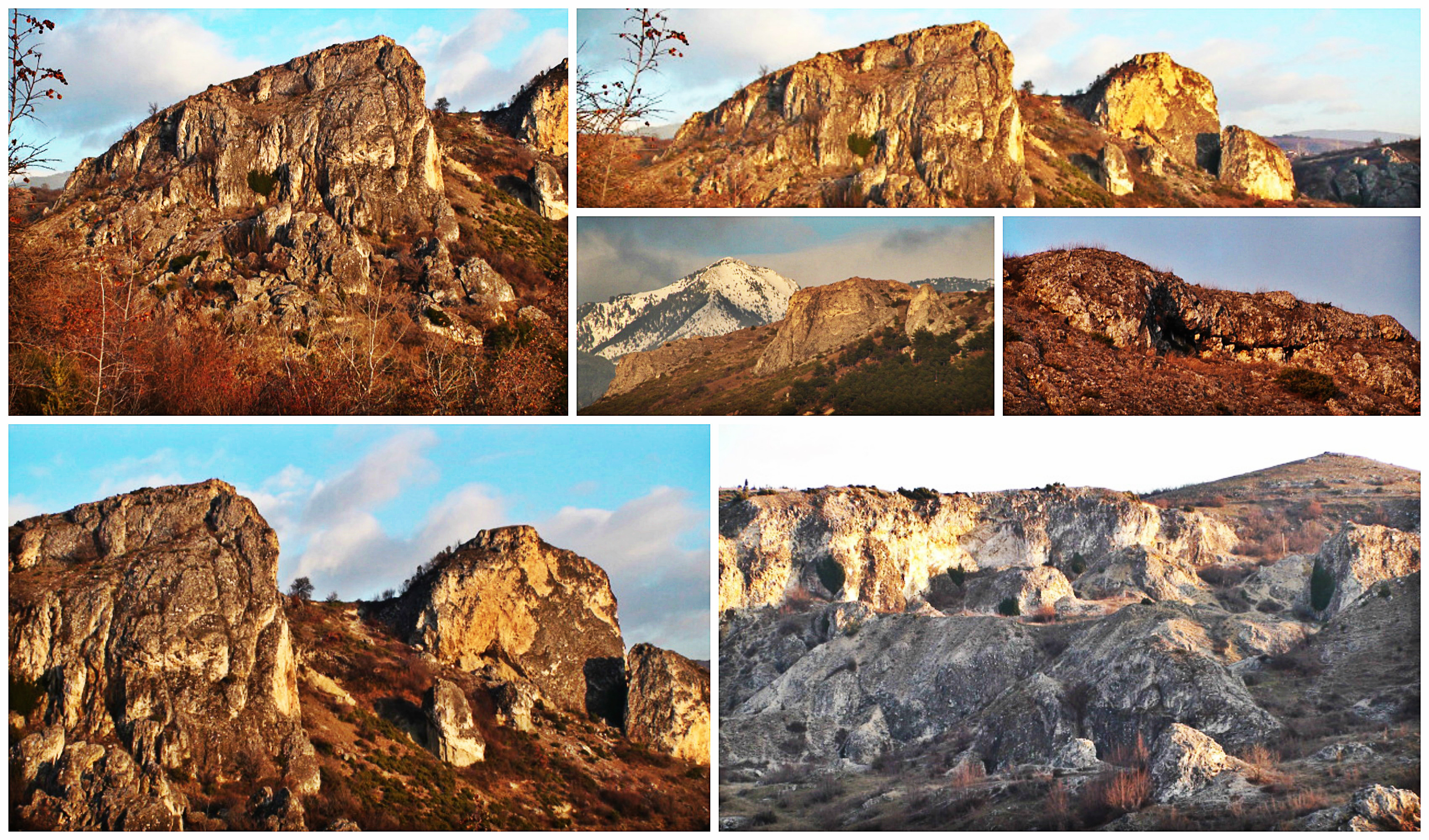 Ilindetsi_Bulgaria_2